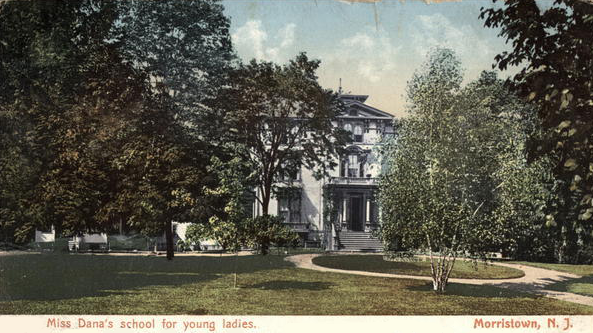 A postcard picturing Miss Dana's School for Young Ladies, which is cancelled by post 11 Sep 1907.